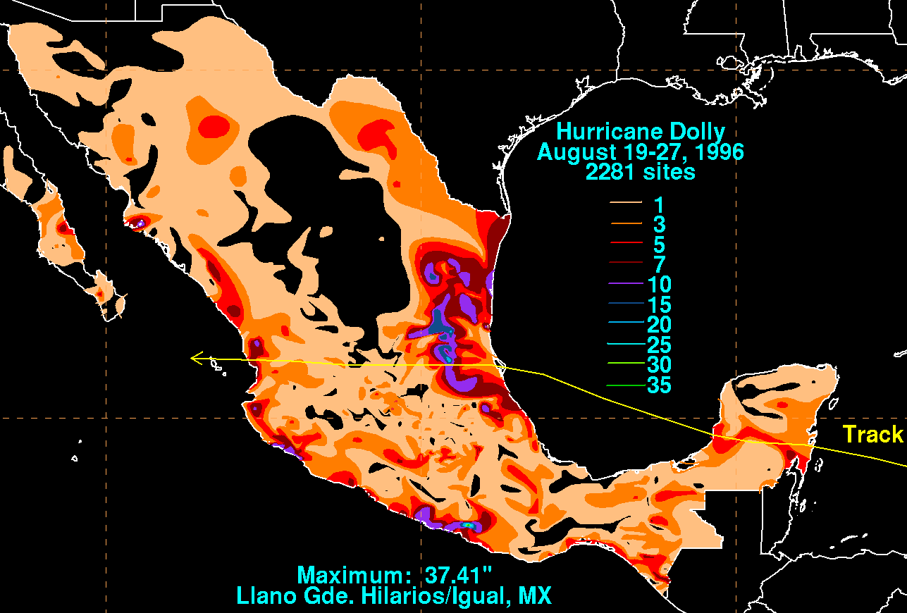 Storm total rainfall map of Hurricane Dolly during August 1996.